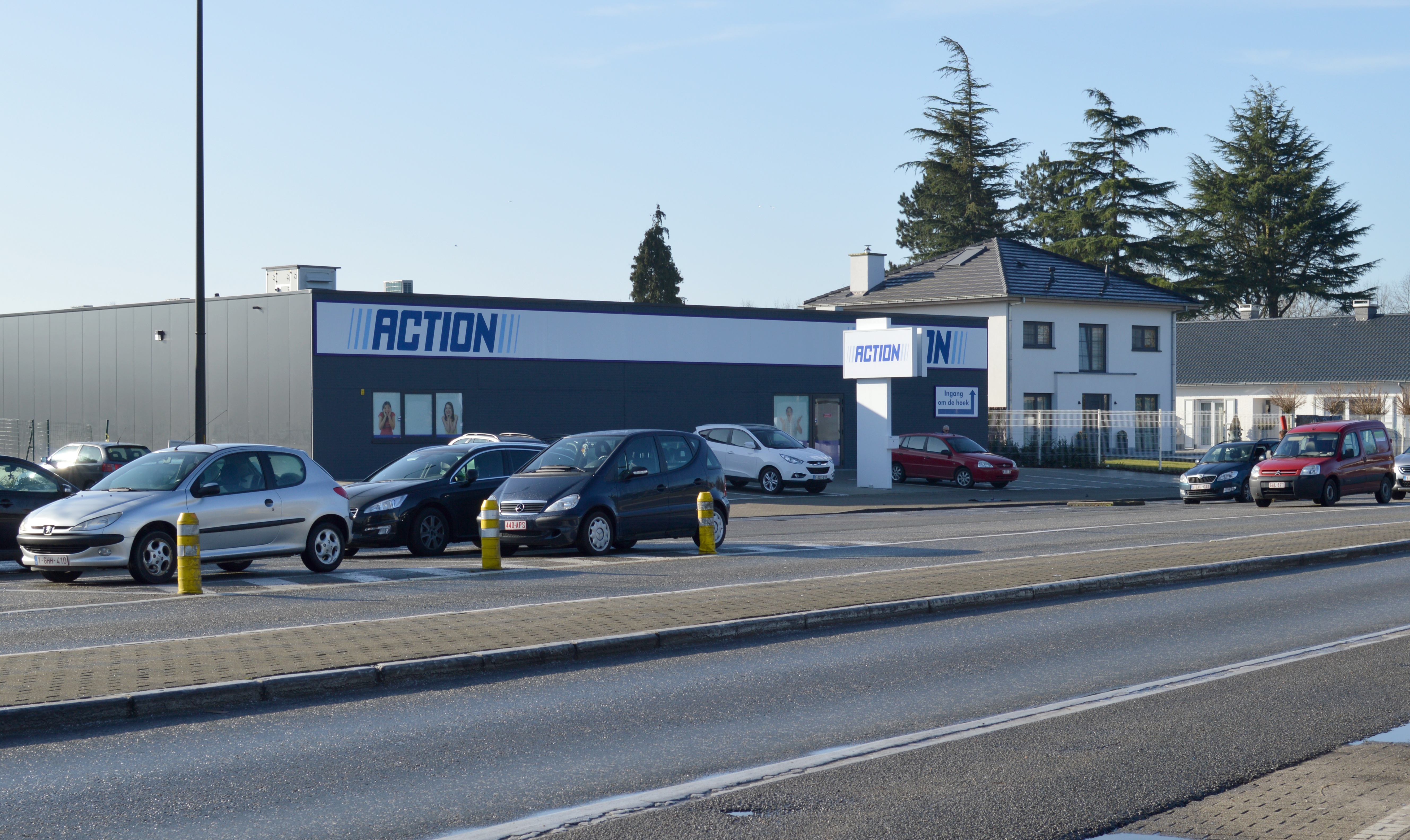 An 'Action' store along Dendermondstesteenweg in Overmere, Berlare, Belgium.